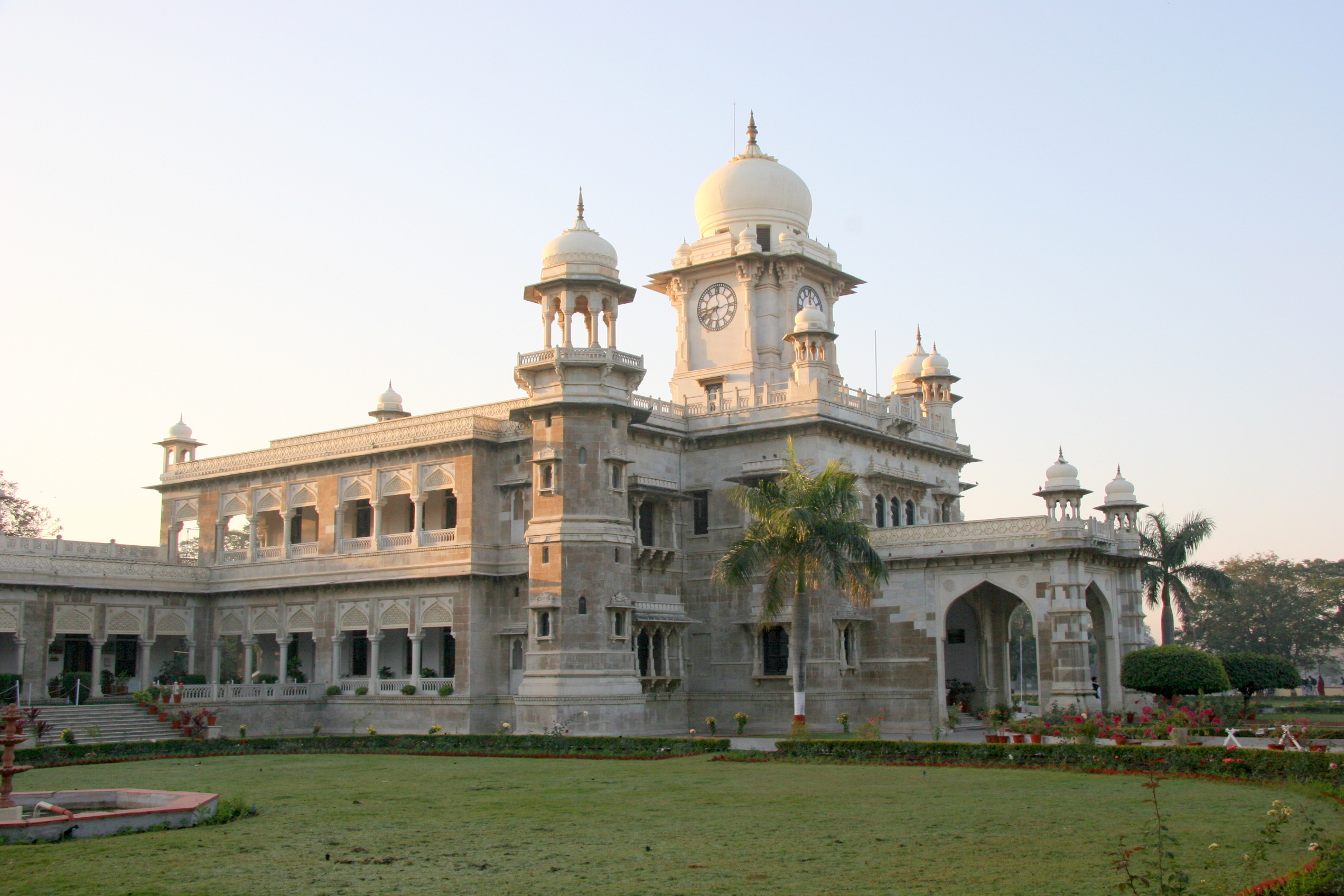 Daly College, Indore, in the Indo-Saracenic Revival style of British colonial architecture - by Samuel Swinton Jacob.